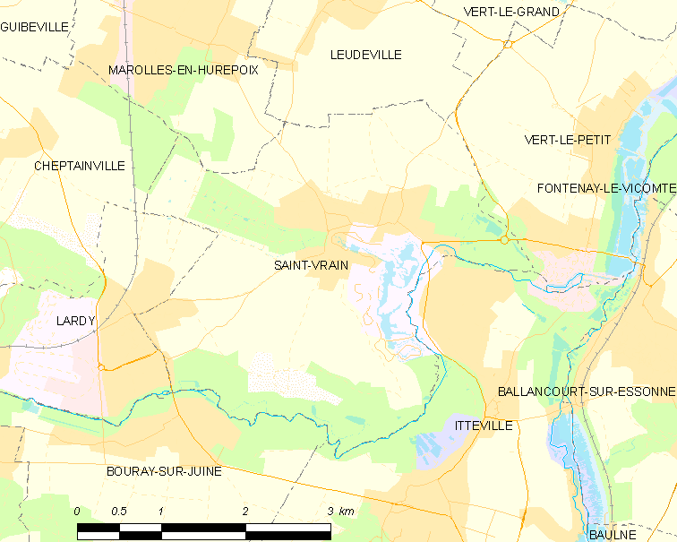 Map of French municipality Saint-Vrain